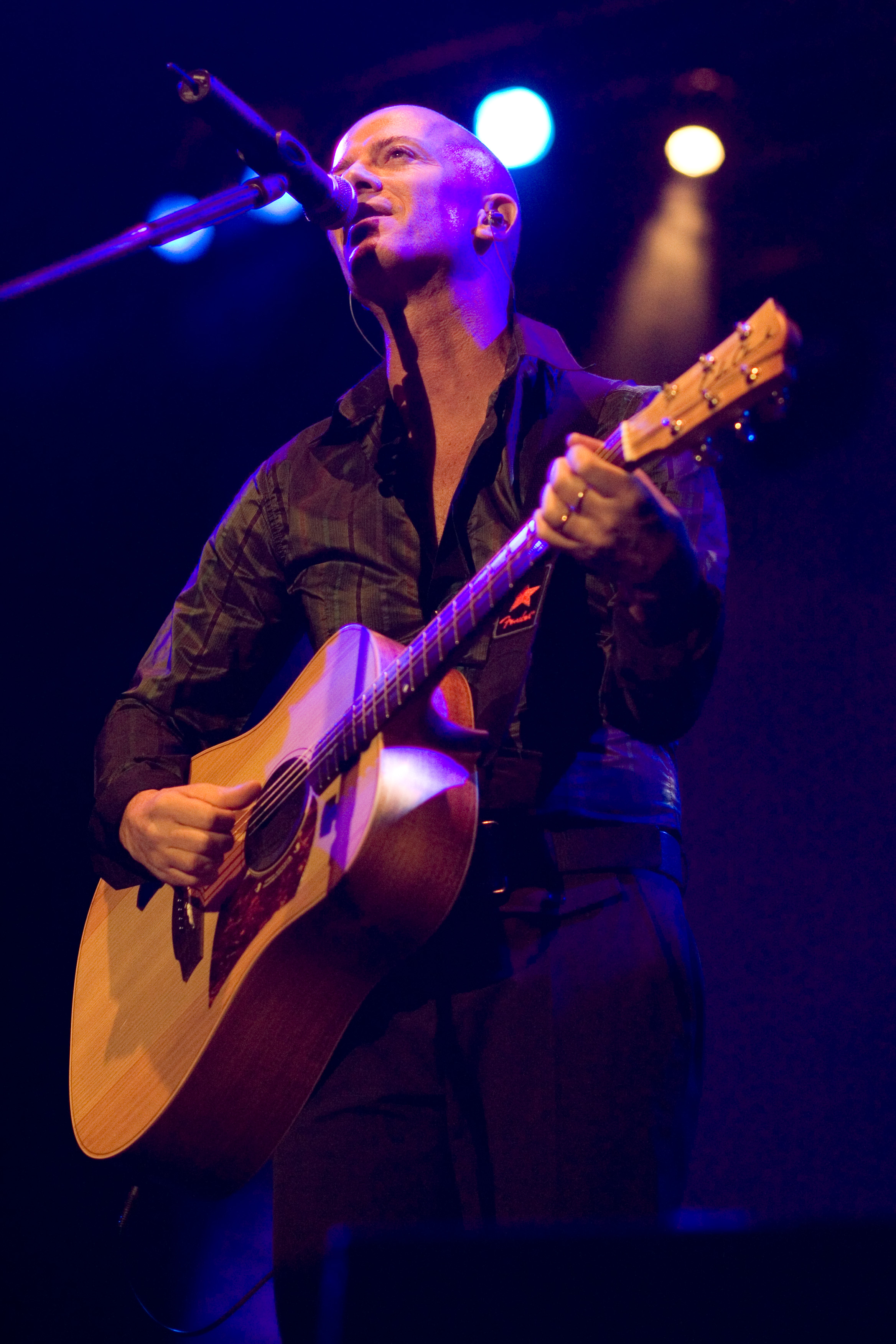 Raffaele Riefoli, better known as Raf